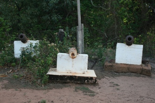 Somerset in Cape York, Queensland, Australia